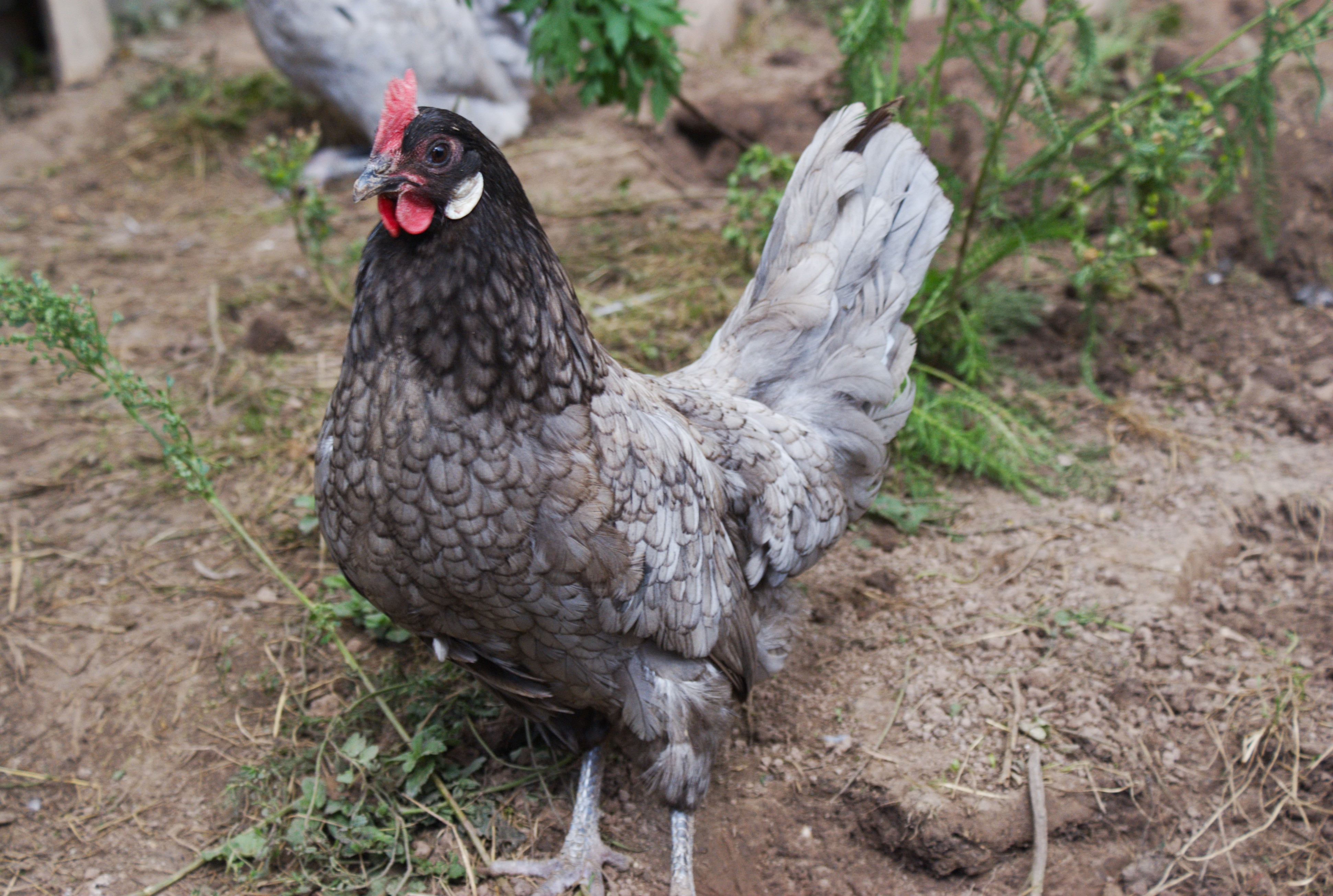 Hen (female) of Andalusian Gallus (chicken). Андалузская курица.